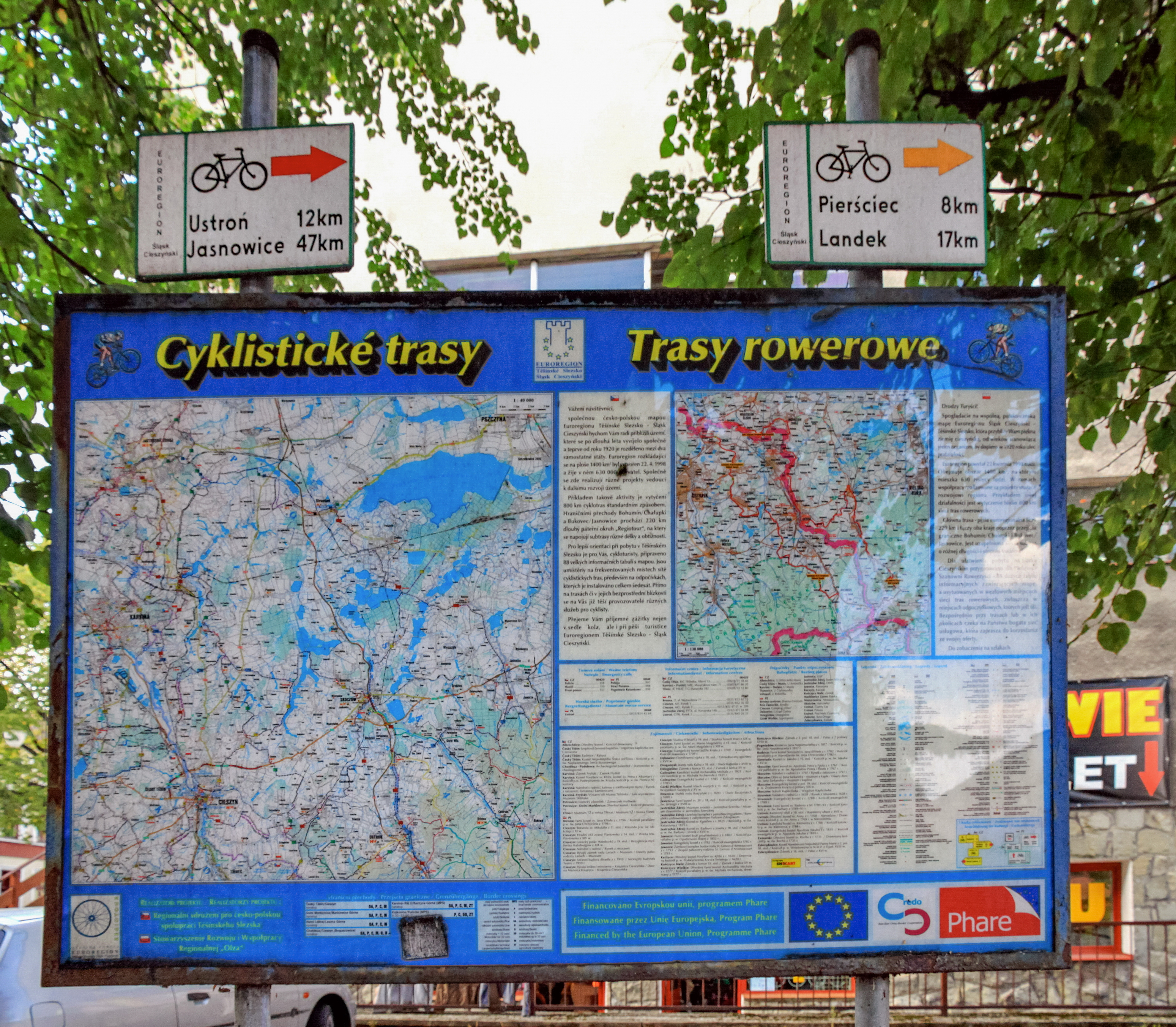 Cycling route signs: Yellow Route No. 11 and Red Route No. 24. Skoczów, Silesian Voivodeship, Poland.